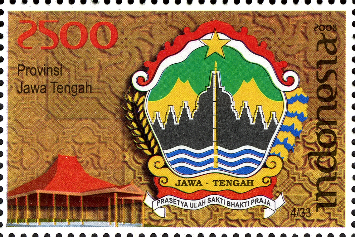 Stamps of Indonesia